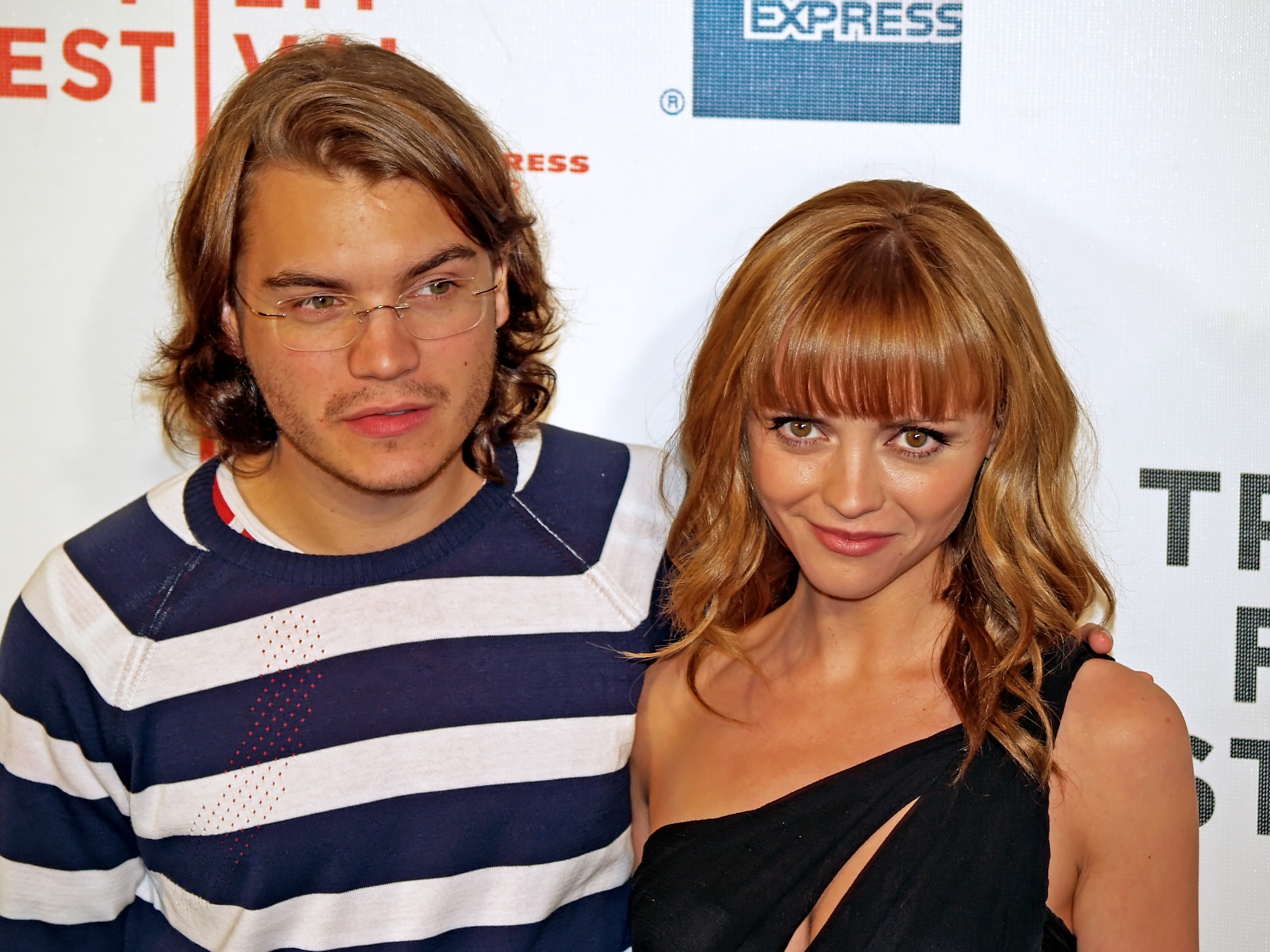 Emile Hirsch and Christina Ricci at the premiere of Speed Racer at the 2008 Tribeca Film Festival.